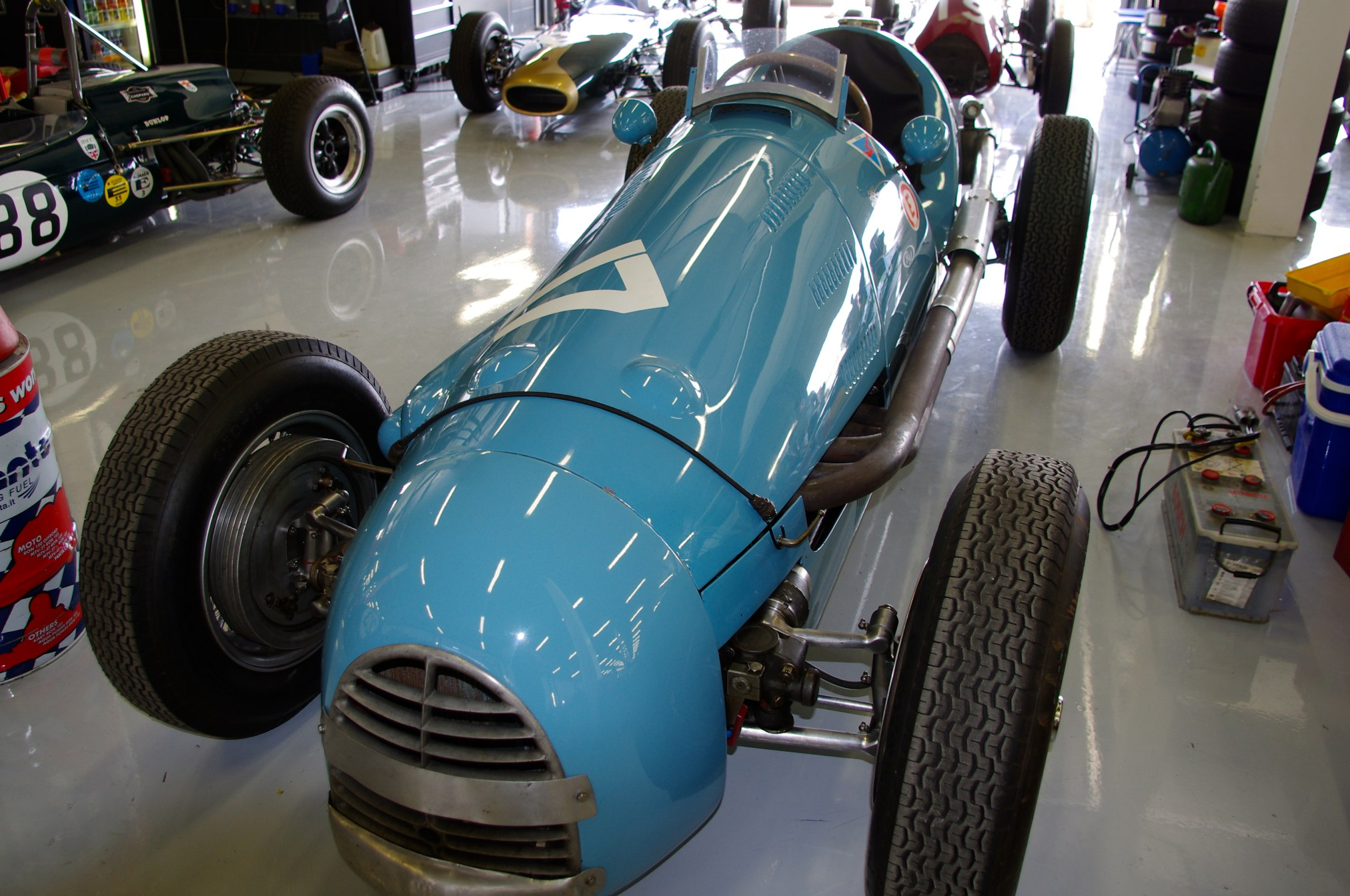 Silverstone Classic 2011